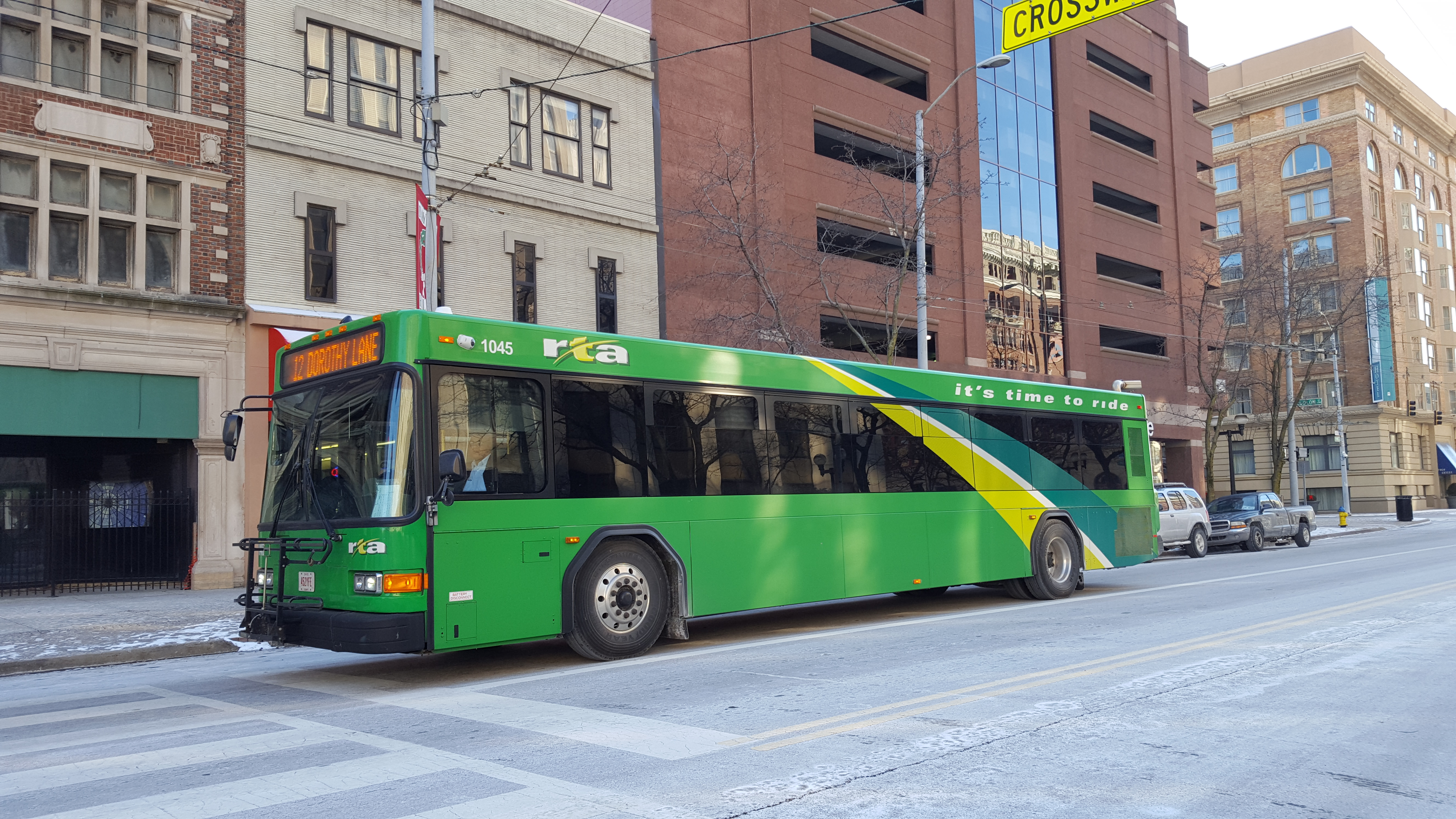 Greater Dayton Regional Transit Authority bus 1045, a 2010-built Gillig low-floor diesel bus, in RTA's late 2000s paint scheme of green with an angled band of bluish green and yellowish green. It is eastbound on 3rd Street just east of Ludlow Street in downtown Dayton, in service on route 12.